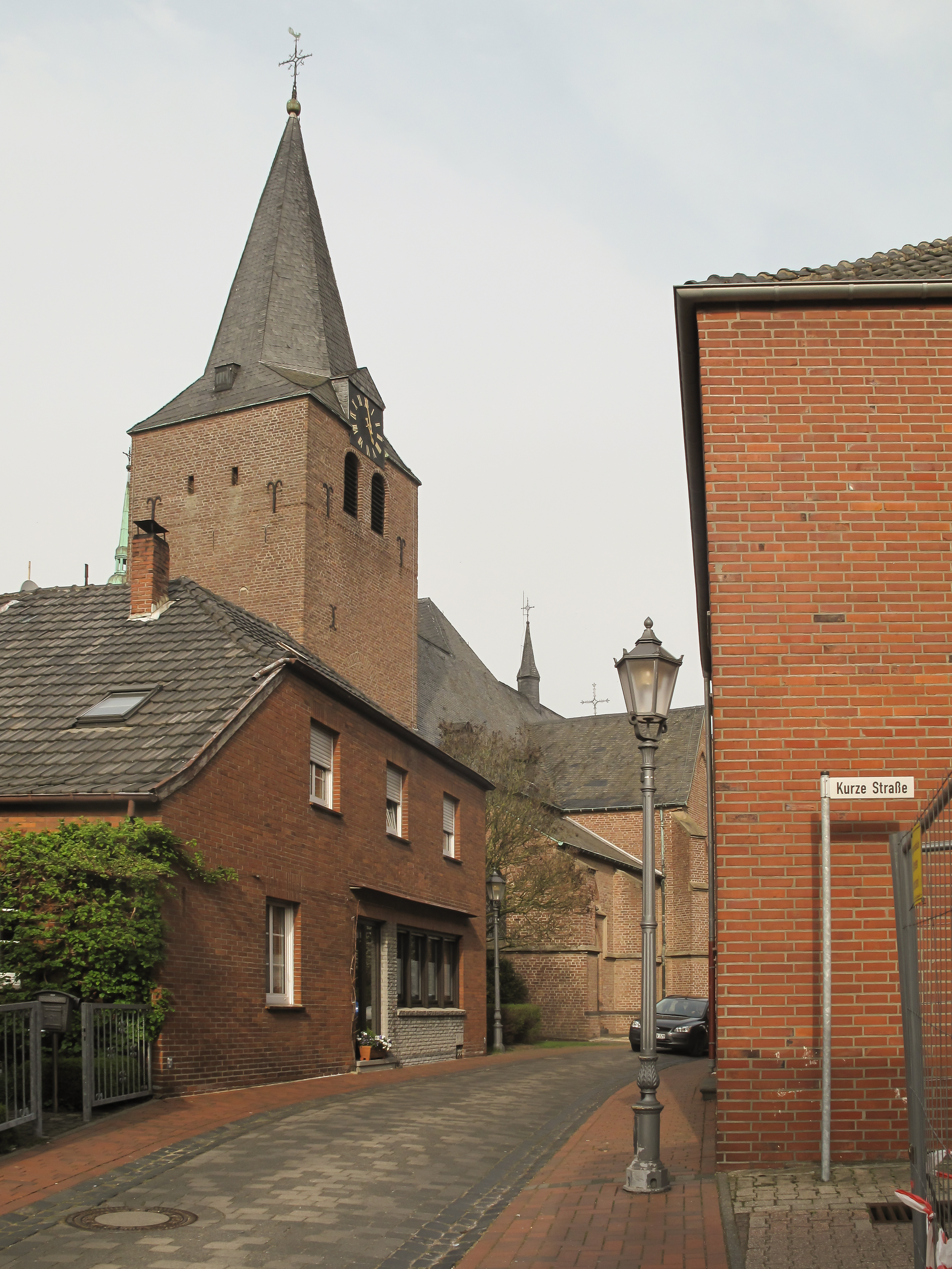 Niederkrüchten, church: die katholische Pfarrkirche Sankt Bartholomäus This is a photograph of an architectural monument.